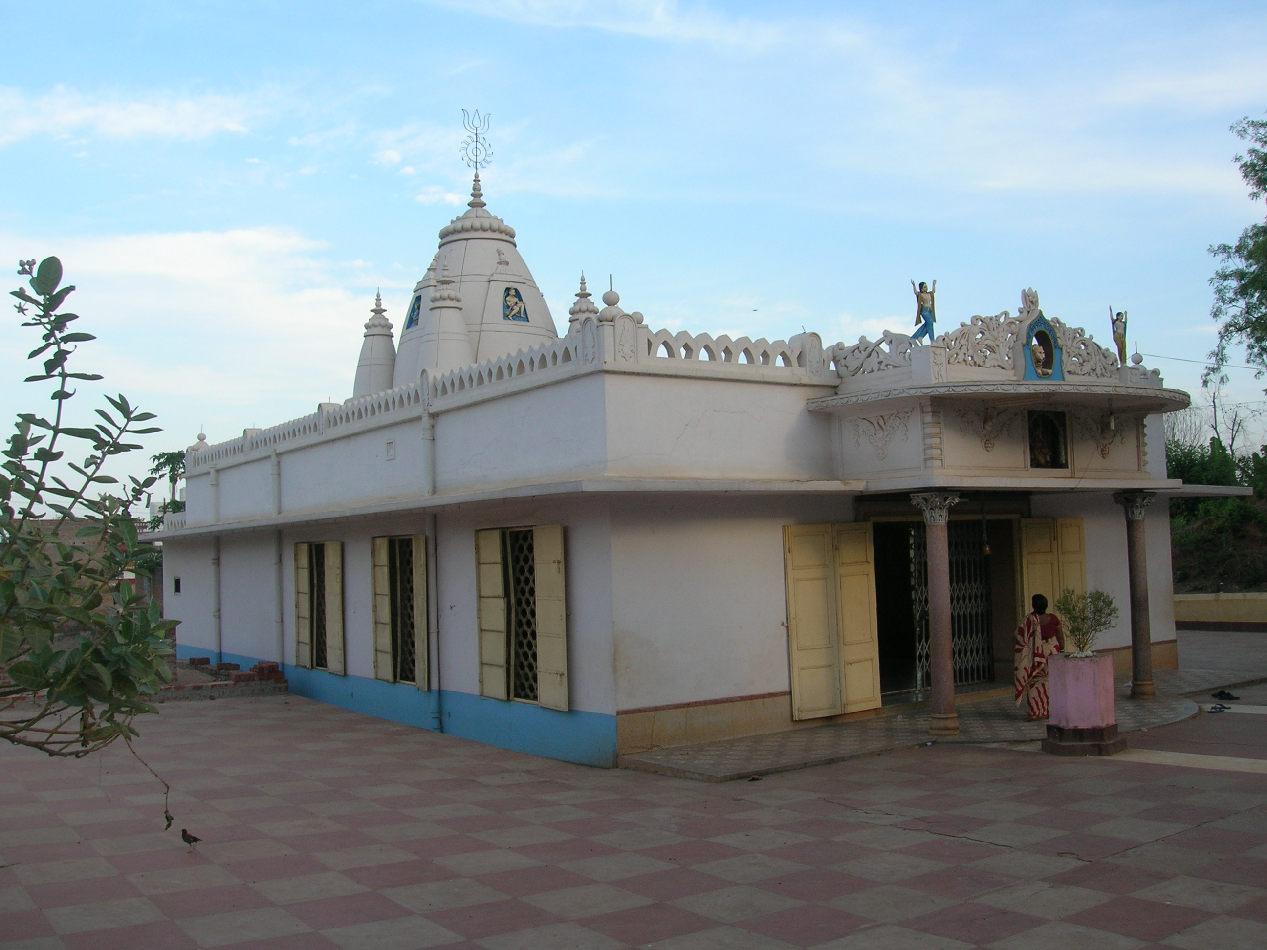 Chhinnamasta Temple (c. 1973), Bishnupur, Bankura dist., West Bengal, India.